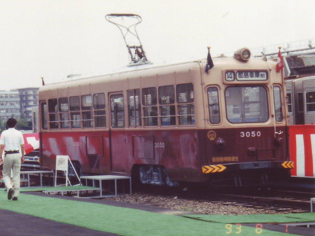 Osaka City Tram #3050. taken in 1993.